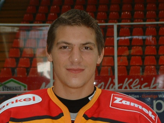 Ice-Hockey player Patrick Reimer (GER), playing for DEG Metro Stars (GER)